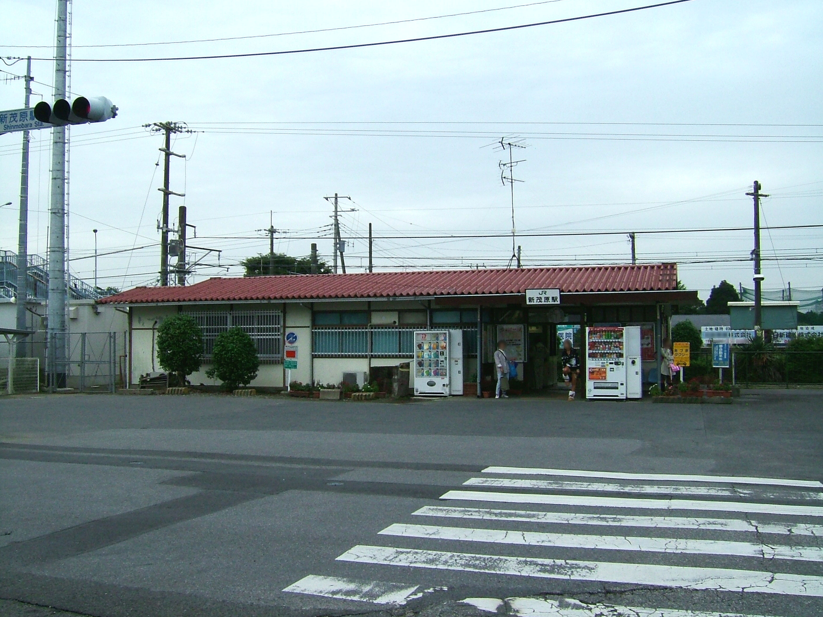 Shin-Mobara Station building (East Japan Railway Sotobō Line)